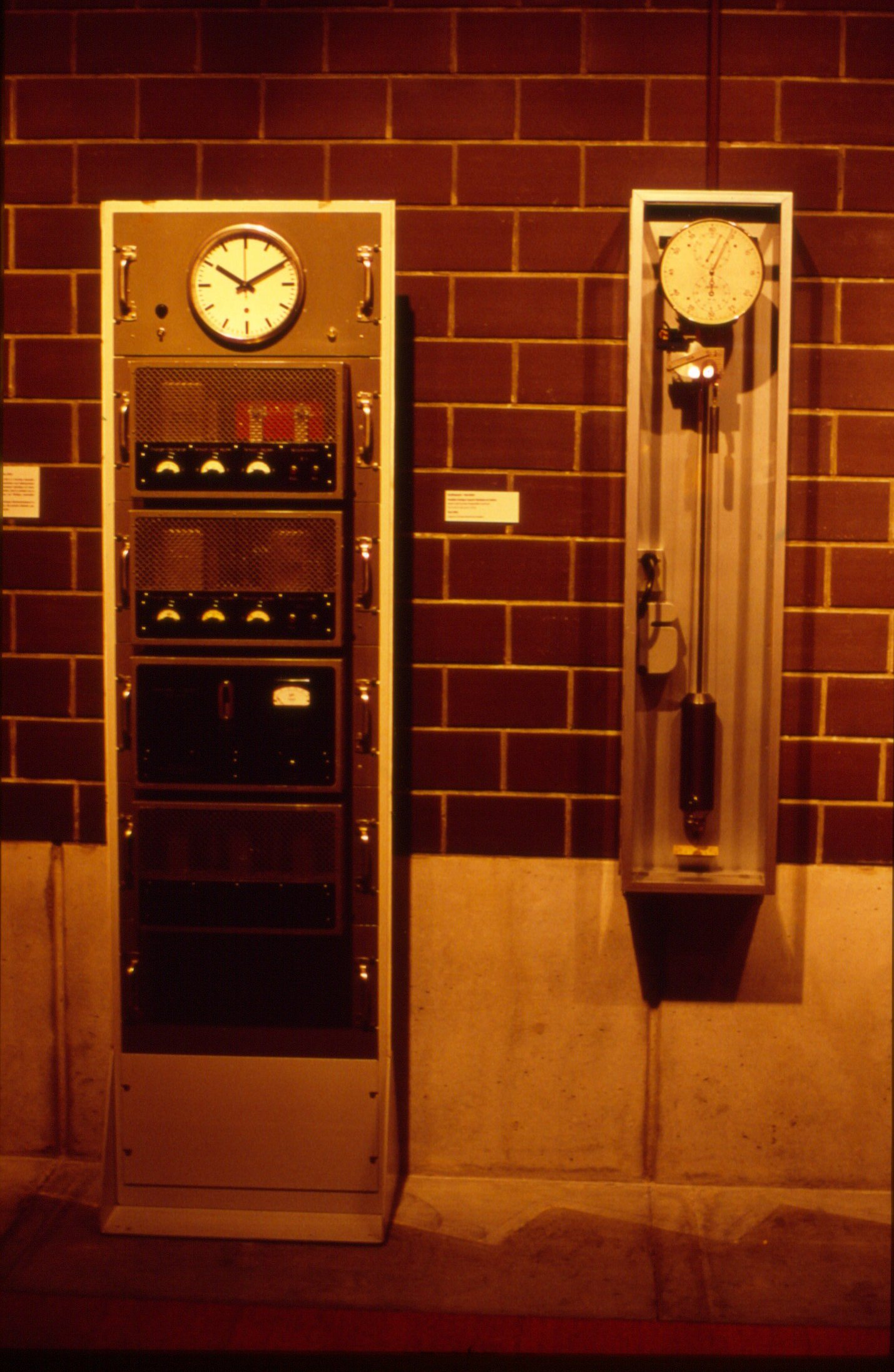 Musée International d'Horlogerie, La Chaux-De-Fonds, Switzerland.